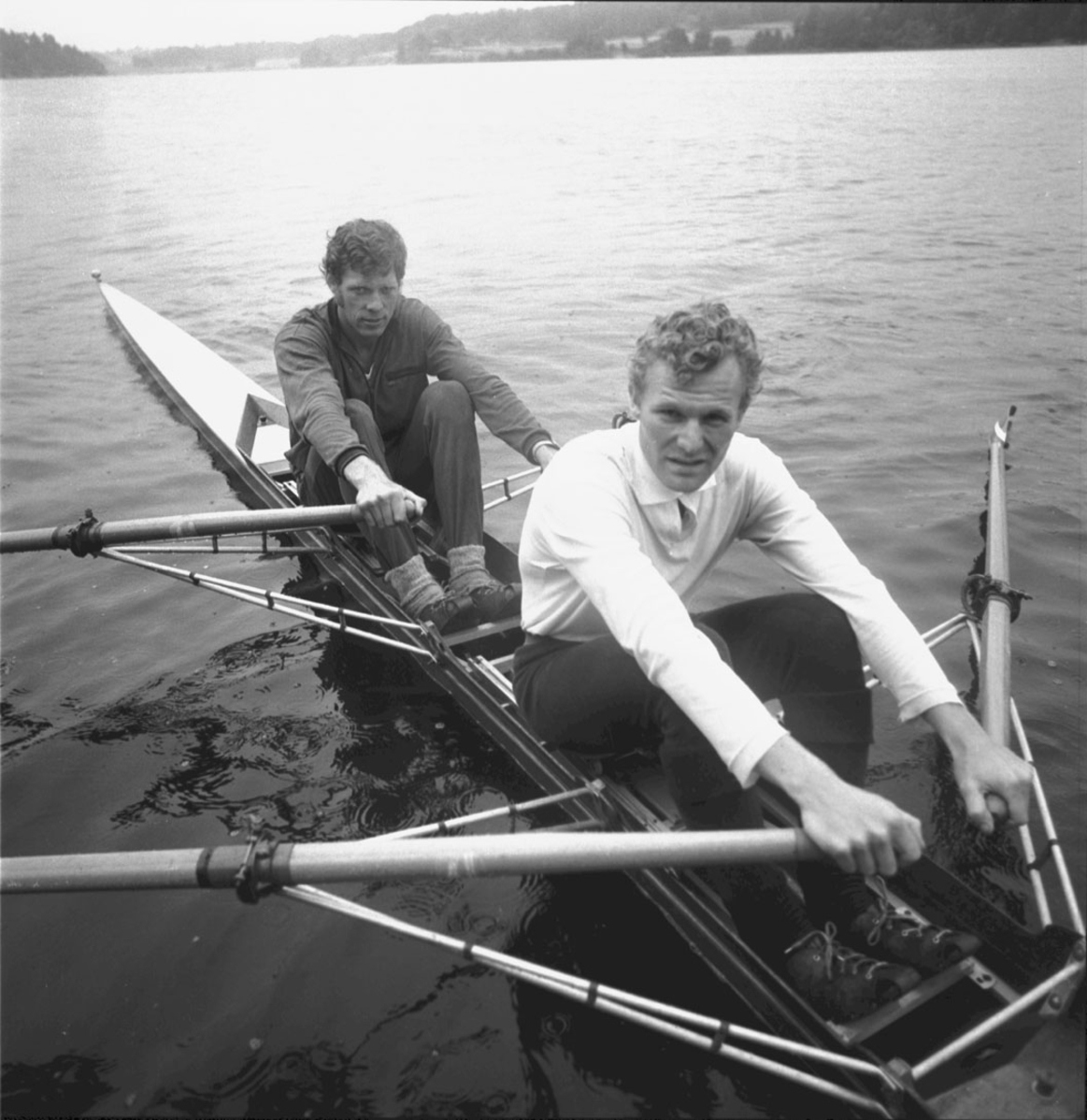 File originally described as: "Alf (b. 1948) and Frank (b. 1945) Hansen are World and Olympic champion rowers from Norway", but source says Frank Hansen and Svein Thøgersen